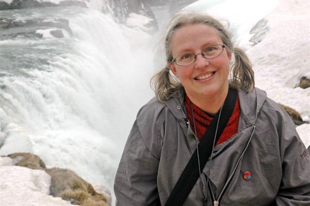 Gro Dahle. Norwegian poet and writer.